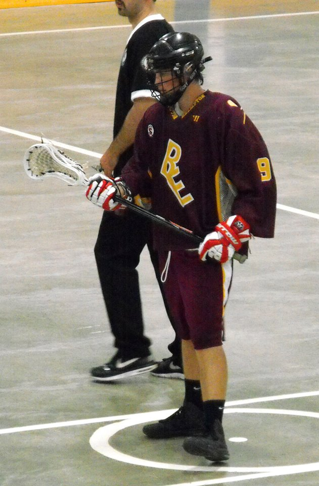 These images of Ontario Junior B Lacrosse Action action during the 2014 season are taken by Devan Mighton.